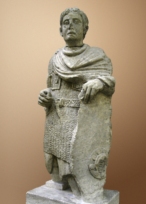 Gallo-Roman statue of a Gaul warrior wearing Roman clothes and weapons; Found : circa 1850 in Vachères, Alpes-de-Haute-Provence, France ; Location : Museum Calvet, Avignon, France (Inv. G 136c).